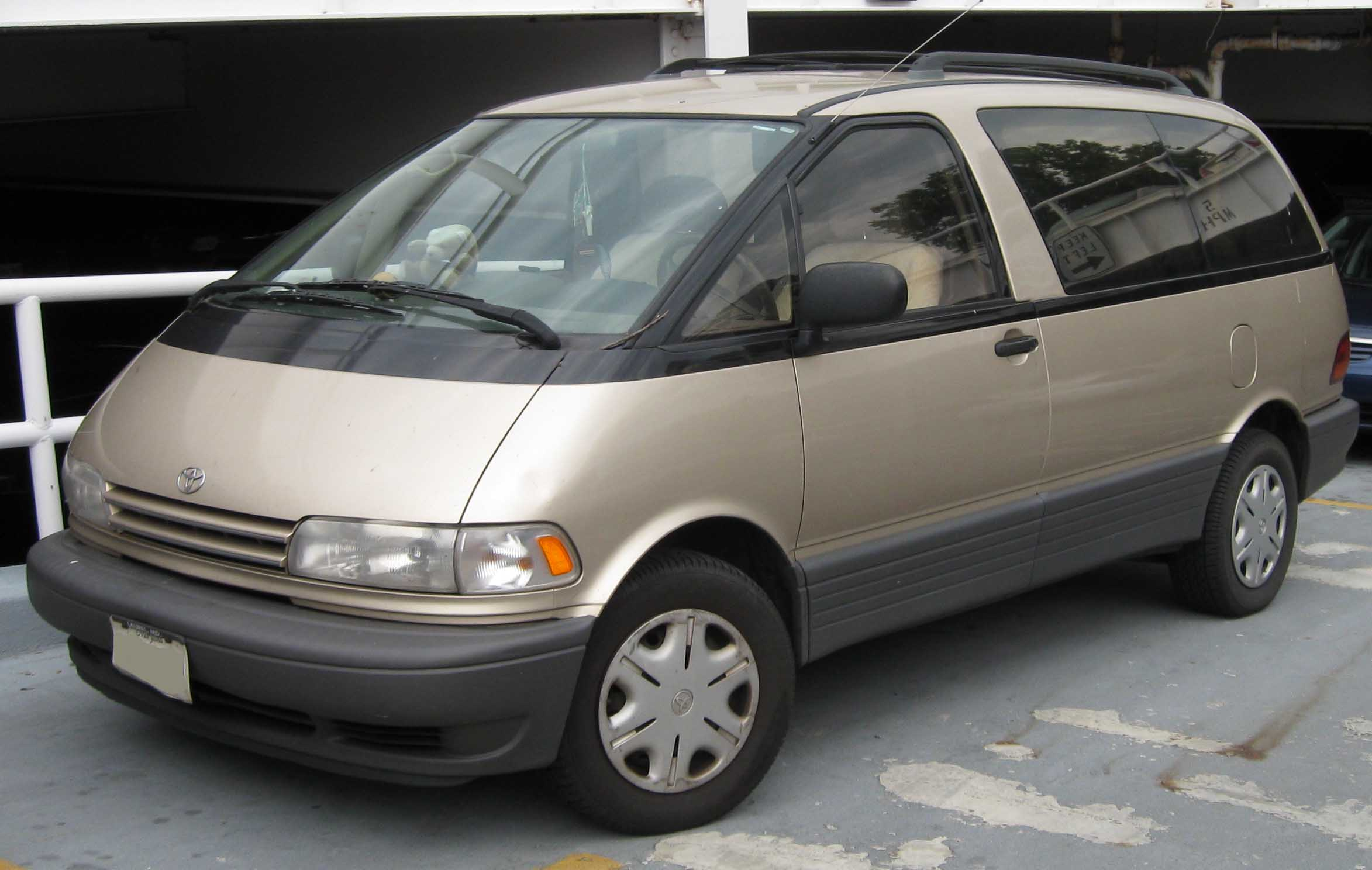 1991-1996 Toyota Previa photographed in Bethesda, Maryland, USA.